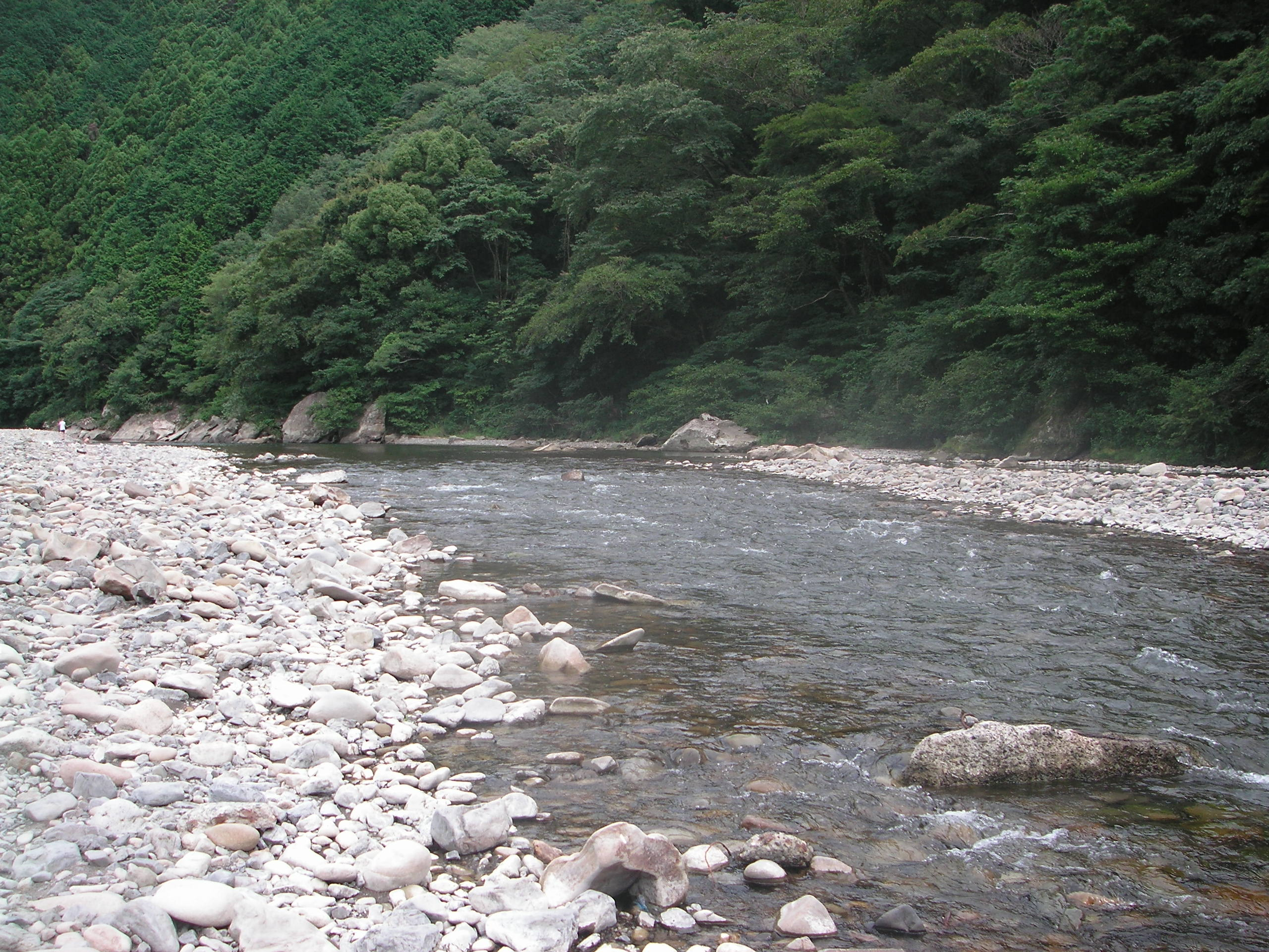 Tondagawa River in Oto, Tanabe, Wakayama Prefecture